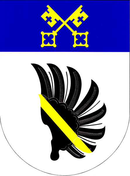 Municipal coat of arms of Petrovice village, Blansko District, Czech Republic.